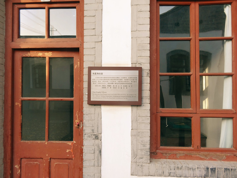 Sinn Sing Hoi(Xian Xinghai)'s Room in the Xi'an Office of the Eighth Route Army